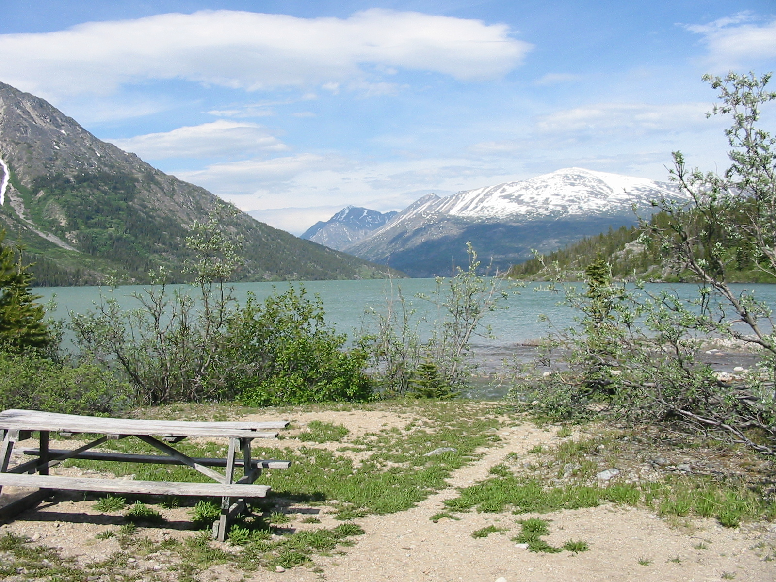 A view out upon Lake Lindeman in the early summer. I took this pic.